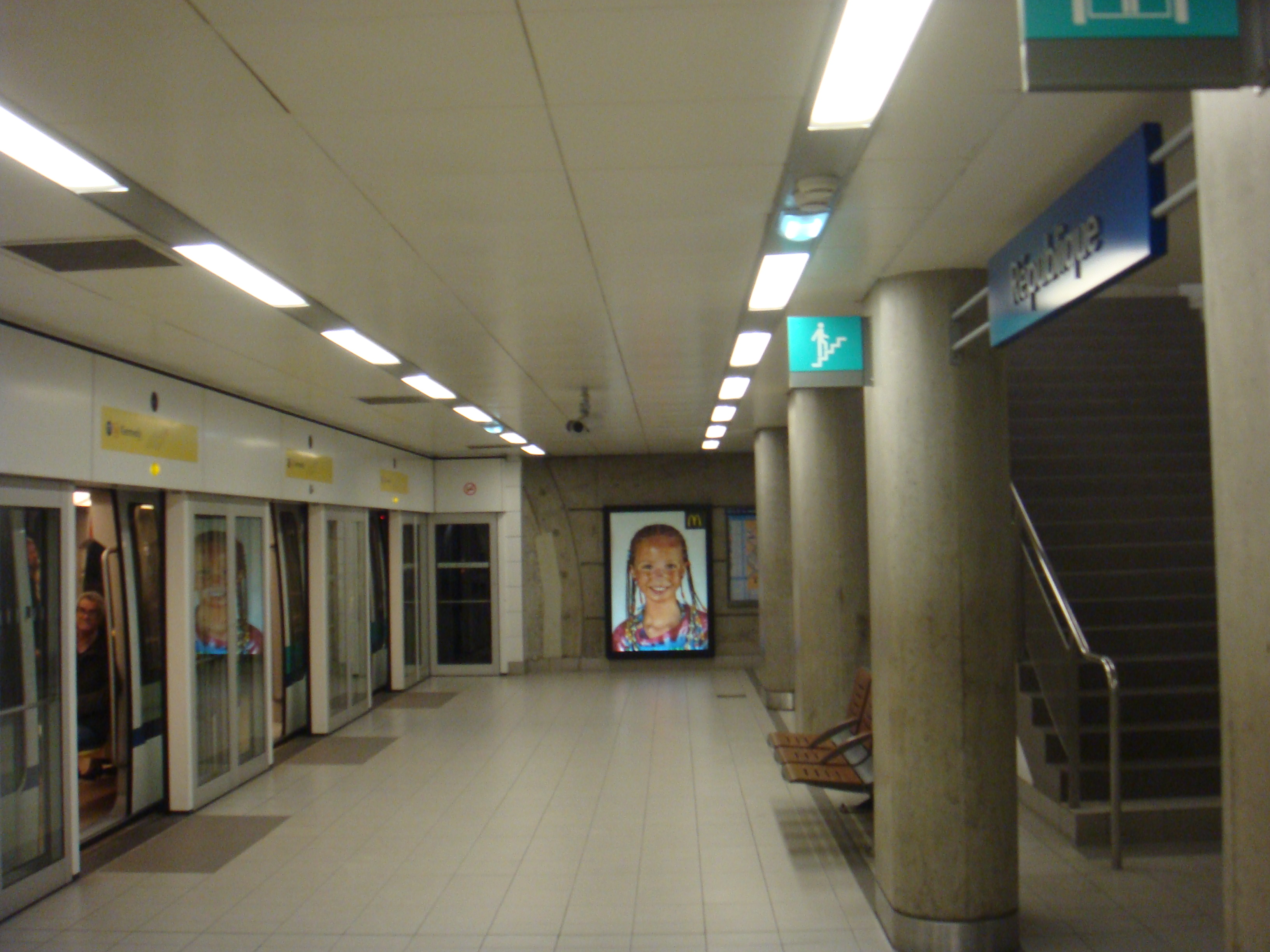 Rennes Metro. Republique station